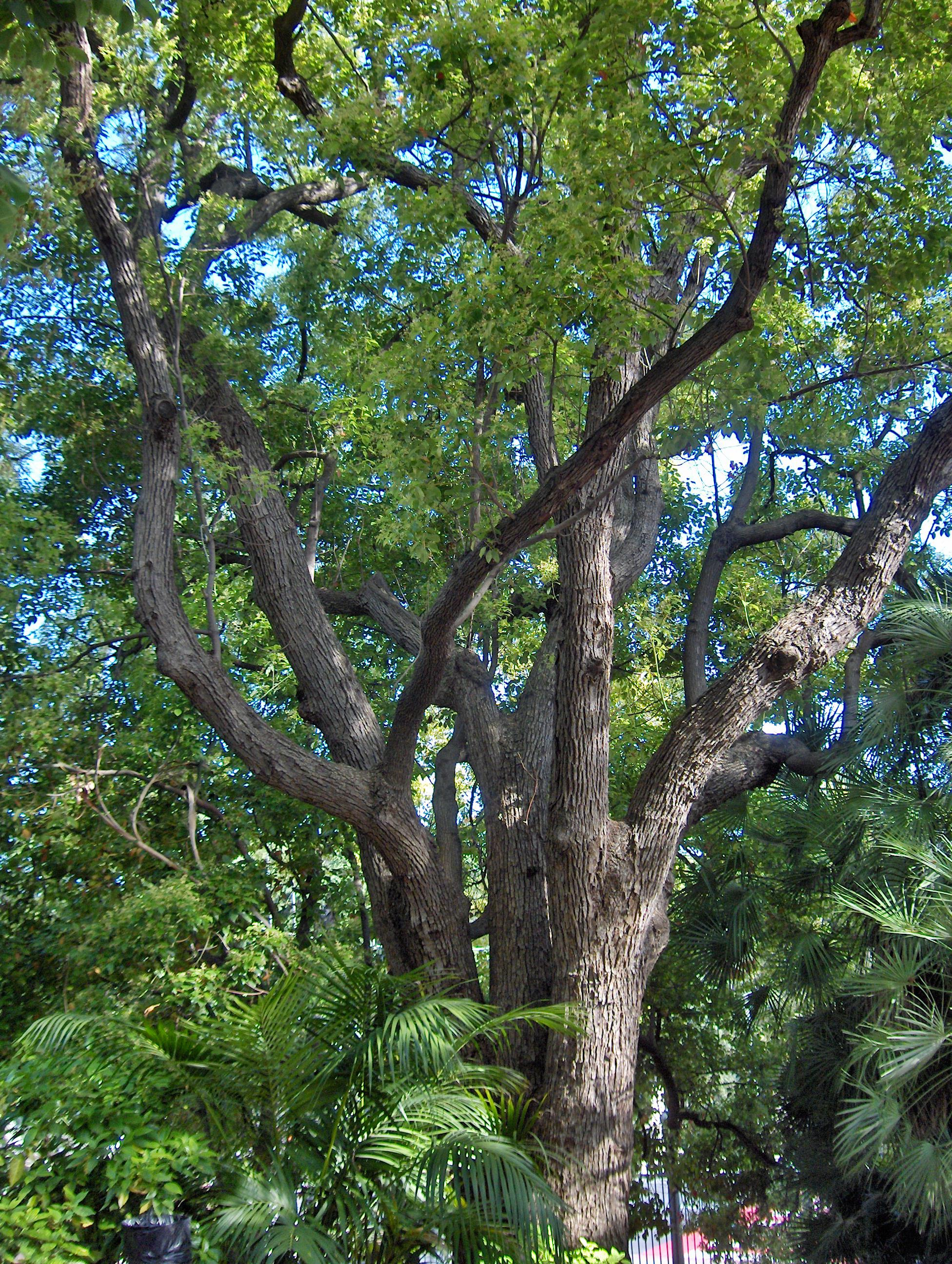 Cinnamomum camphora; botanical garden, San Remo, Italy